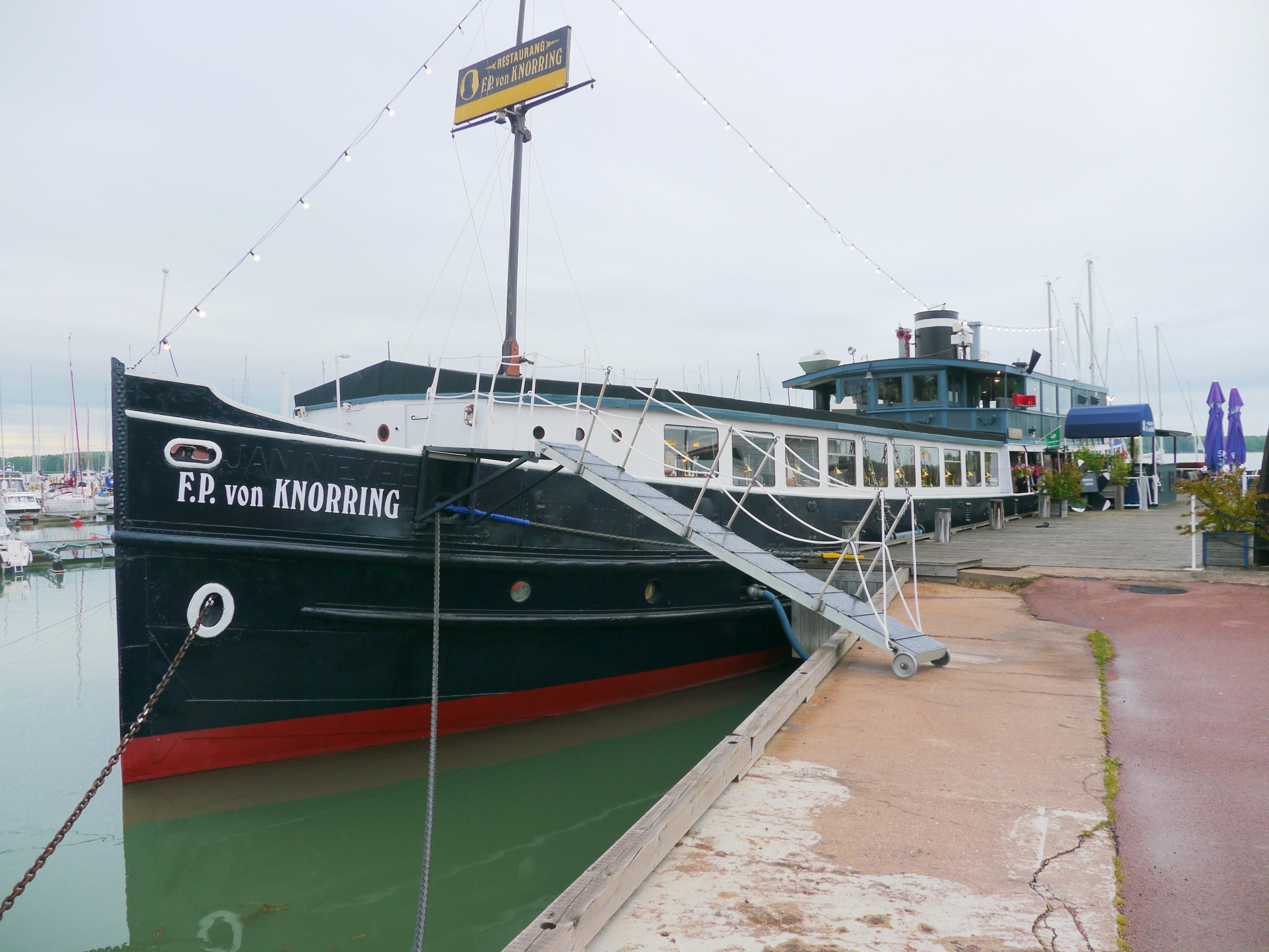 The ship Jan Nieveen, built in 1928 in Arnhem, the Netherlands, nowadays a restaurant ship in the harbour of Mariehamn, Åland.